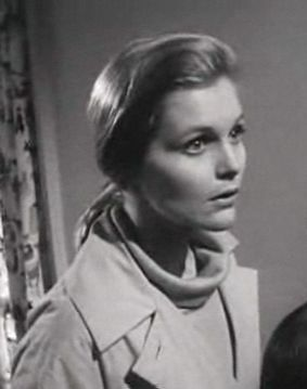 Screenshot of Carol Lynley from the trailer for the film Bunny Lake Is Missing